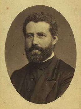 Ernst Johannes Trier (1837-1893), Danish educator